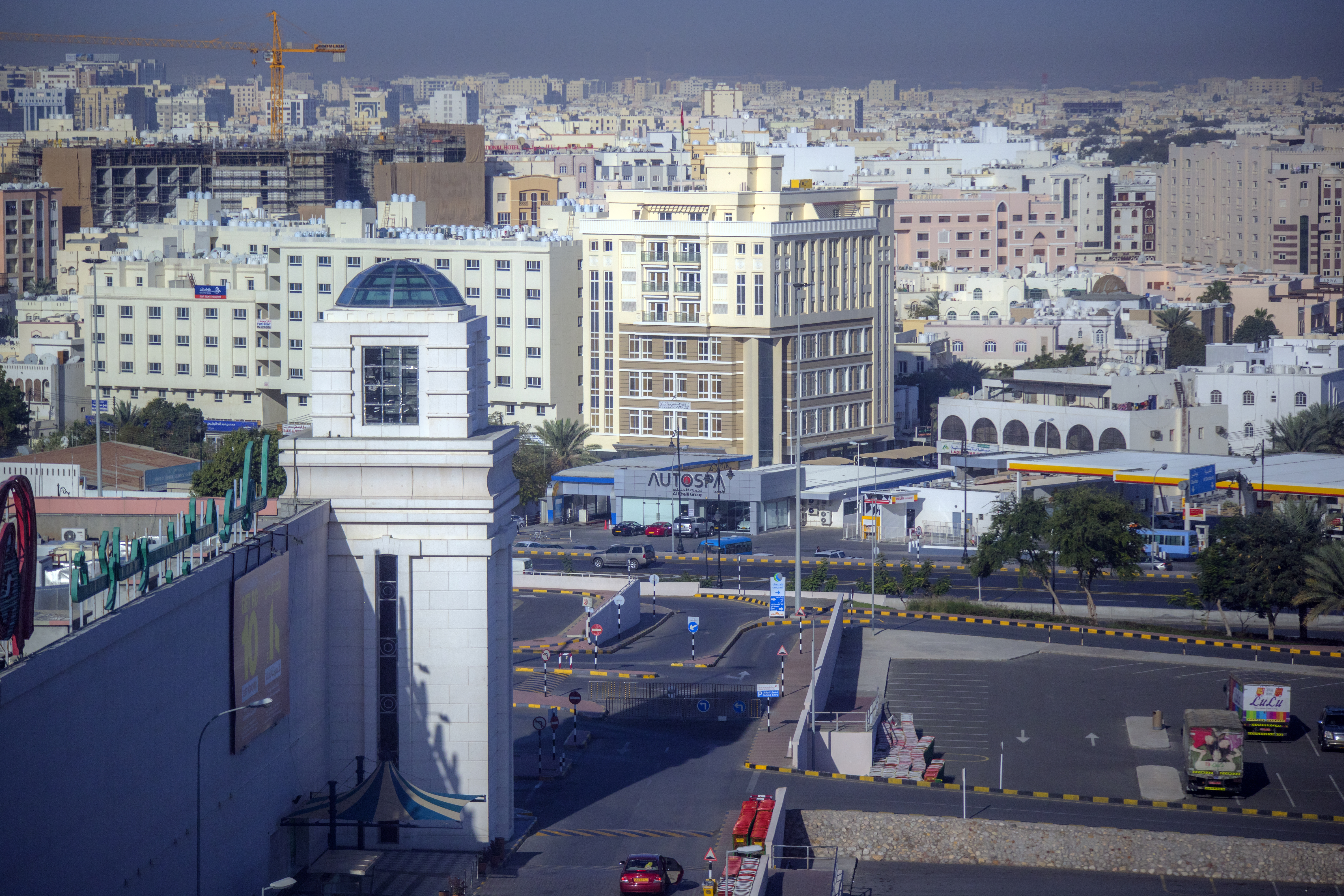 Muscat (Arabic: مسقط) is the capital and largest city of The Sultanate of Oman. It is the largest city in the mintaqah (governorate) of Muscat. The city of Muscat has a population of 650,000 (2005). The official language is Arabic.